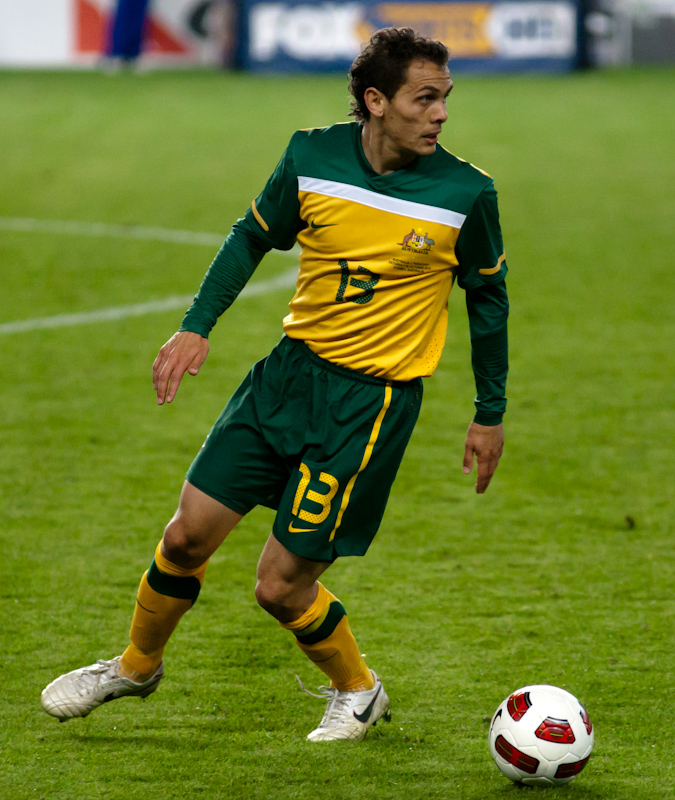 Jade North representing the Australian national football team against Paraguay at the Sydney Football Stadium.